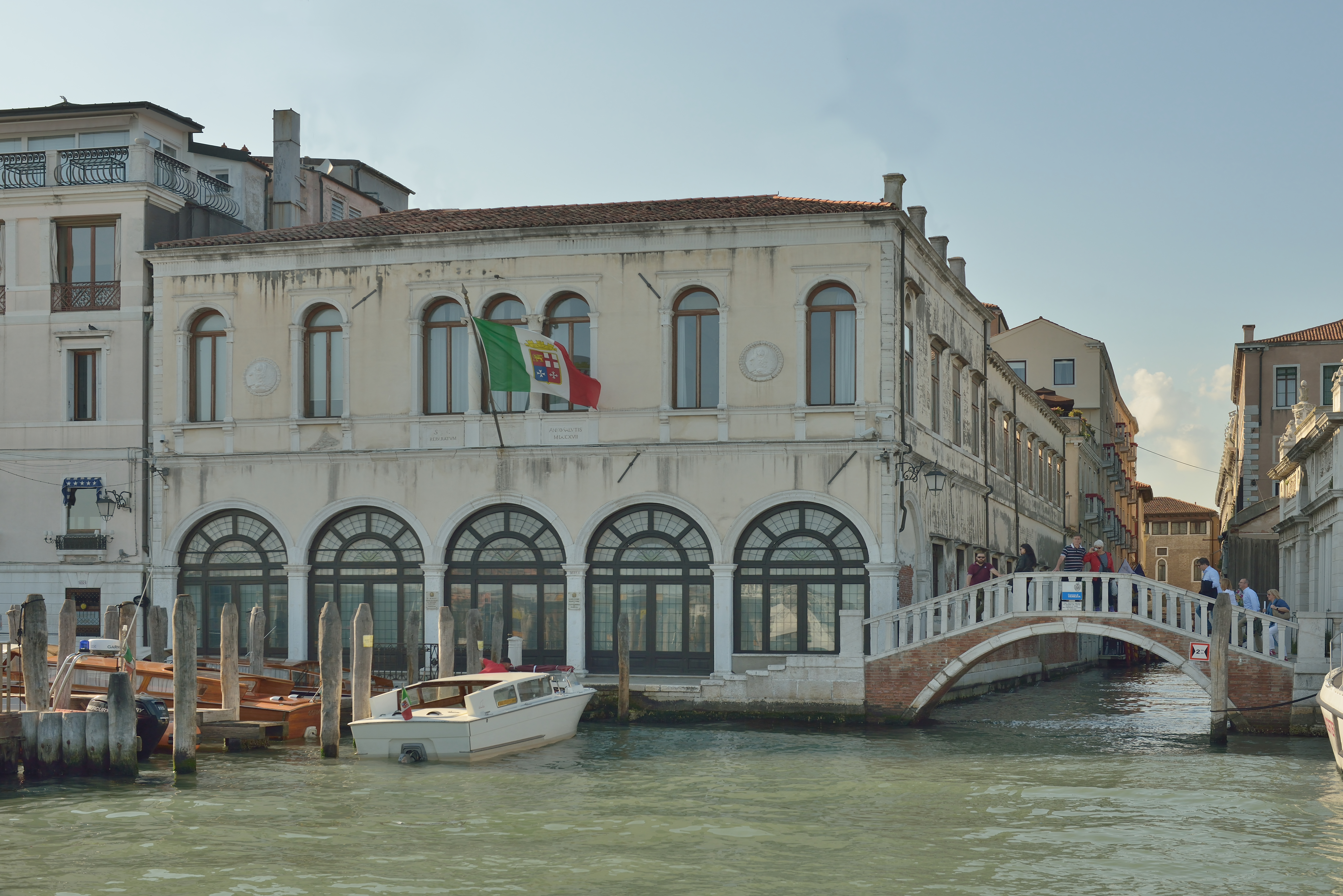 Fonteghetto della Farina and Ponte de l'Accademia dei Pittori bridge in Venice. Facade on Grand Canal.